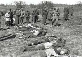 The massacre of the civilian population of the Greek village of Domenico, executed by Italian occupation troops 16-17 February 1943